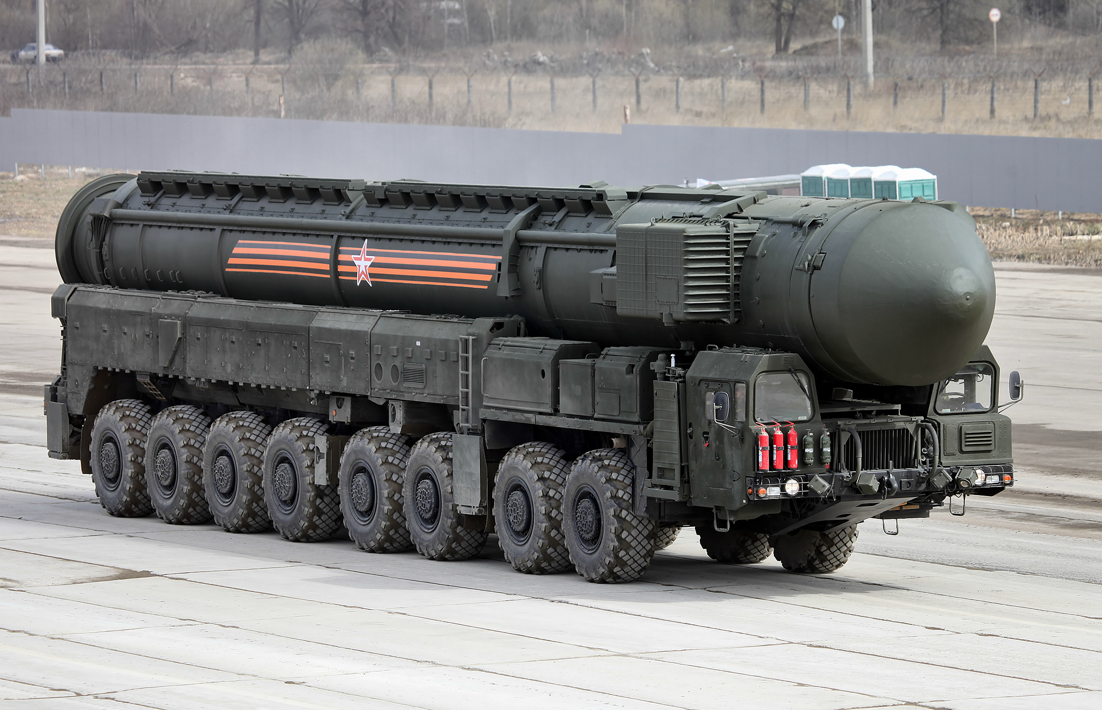 15U175M TEL from RS-24 Yars ICBM (during the first open rehearsal in Alabino)